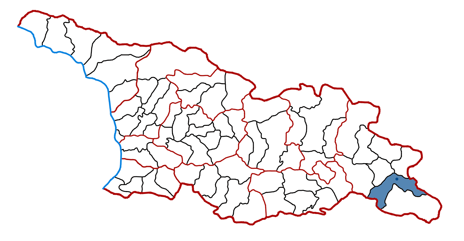 Location of Sighnaghi district in Georgia